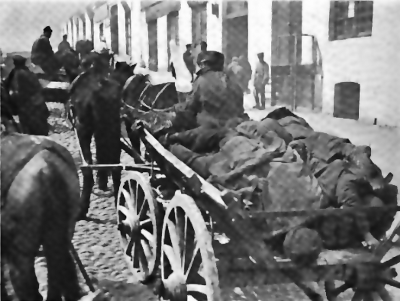 Removing the dead from the streets of baku march days 1918 of the March Days.